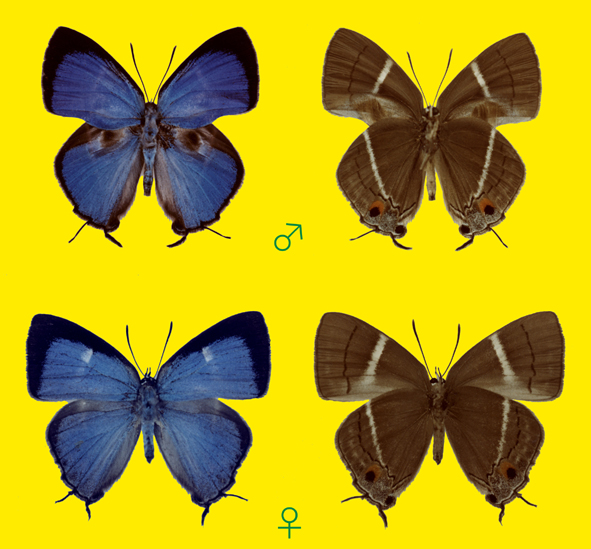 Dacalana akayamai, male & female